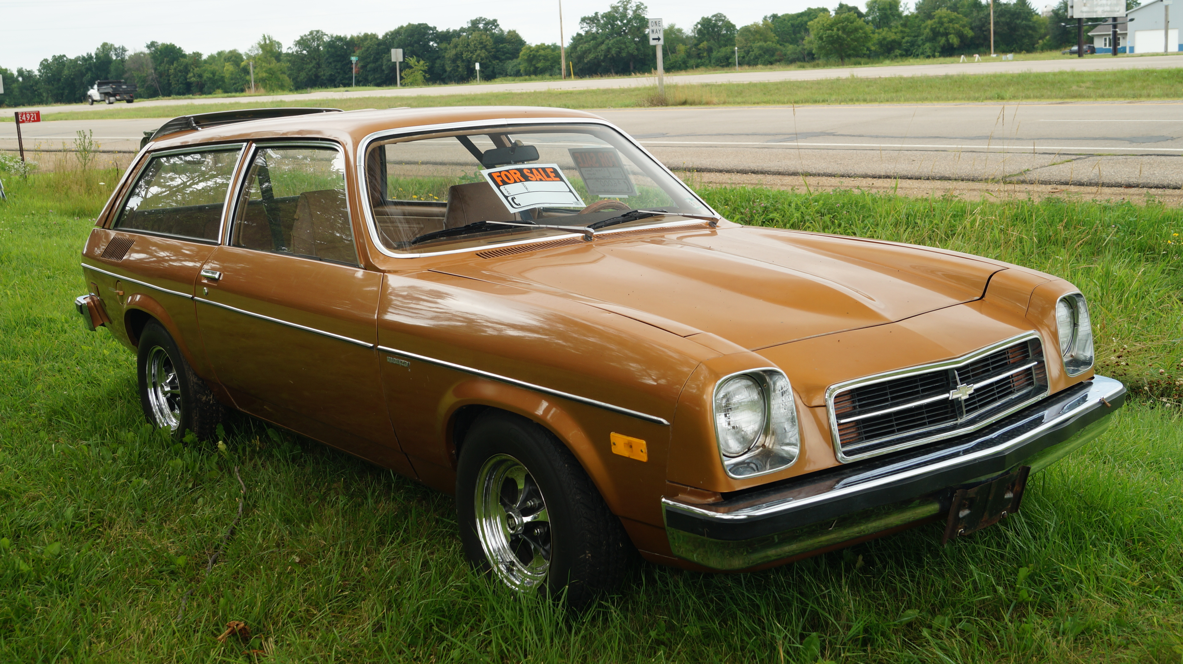 Click here for more car pictures by make Click here for Car Event pictures by year. Or here for my Car Crazy Tumblr site. Or on Twitter @DVS1mn.